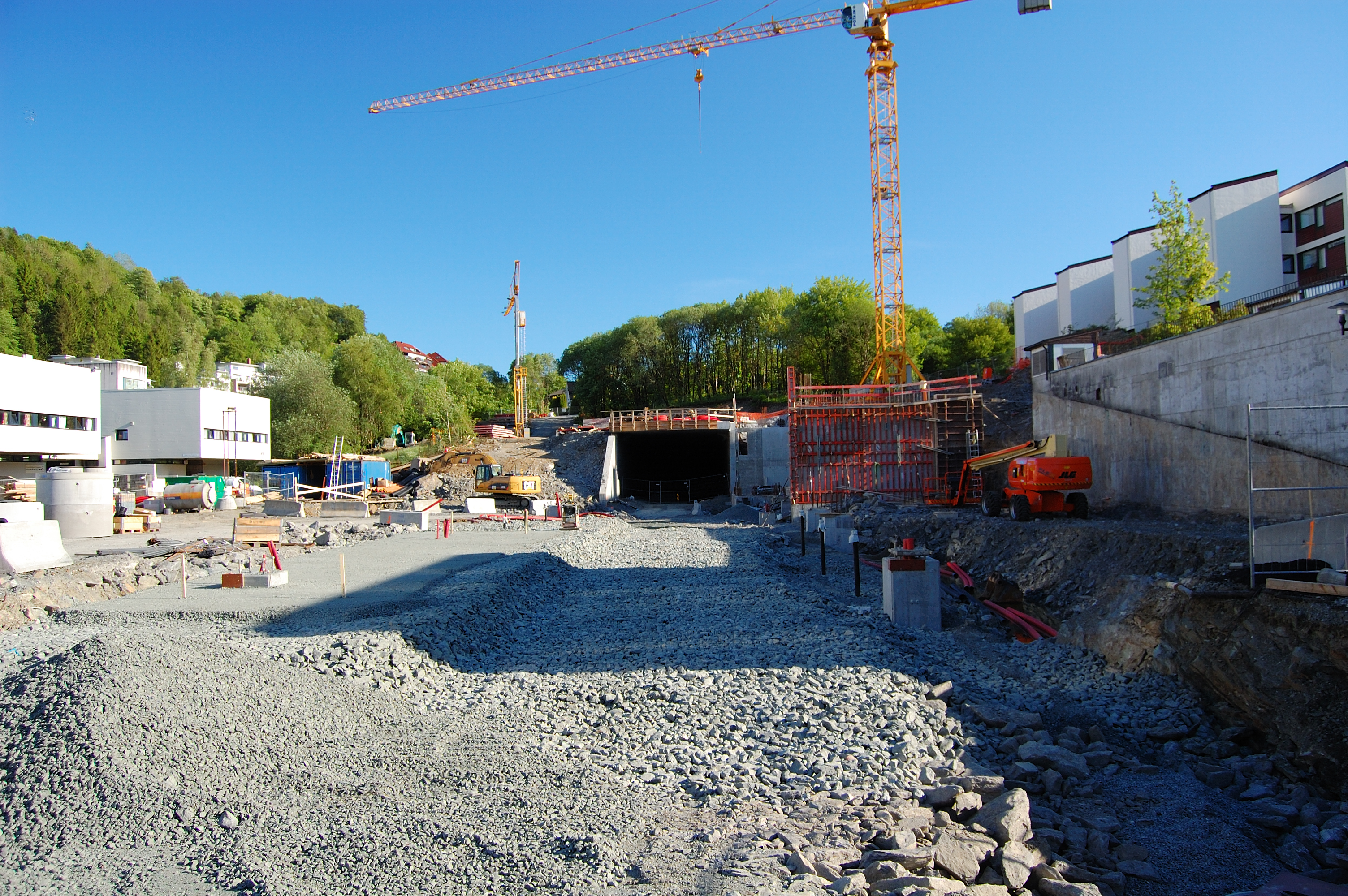 A construction site of the Fantoft tunnel which is a part of the Bergen Light Rail.